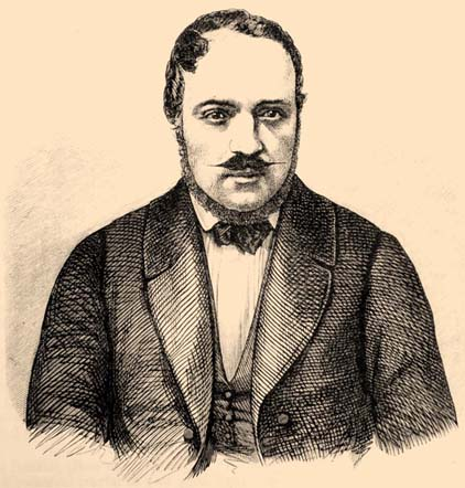 Adolf Érkövy